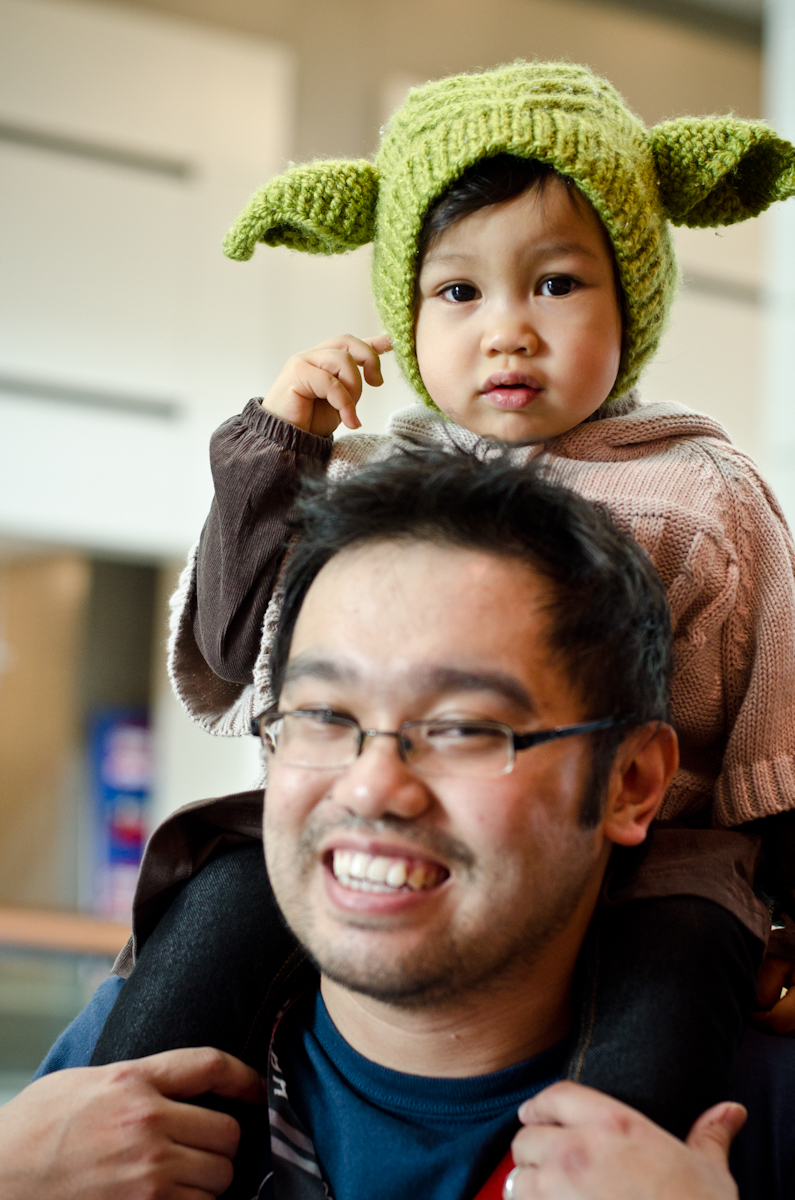 Cosplay at the 2013 Chicago Comic & Entertainment Expo (C2E2).